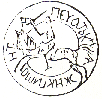 Sigismund's Seal. 1398